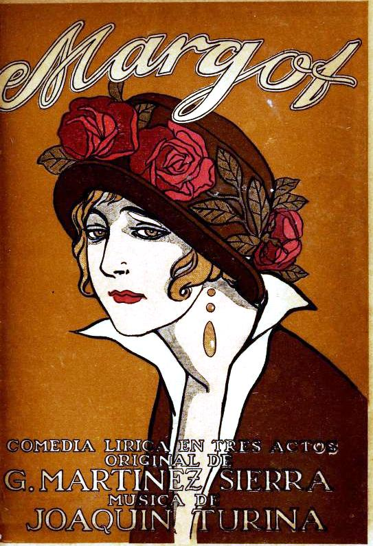 Cover for the libretto of the opera Margot, music by Joaquín Turina, libretto by Gregorio Martínez Sierra. Published for the world premiere in Madrid, 10 October 1914